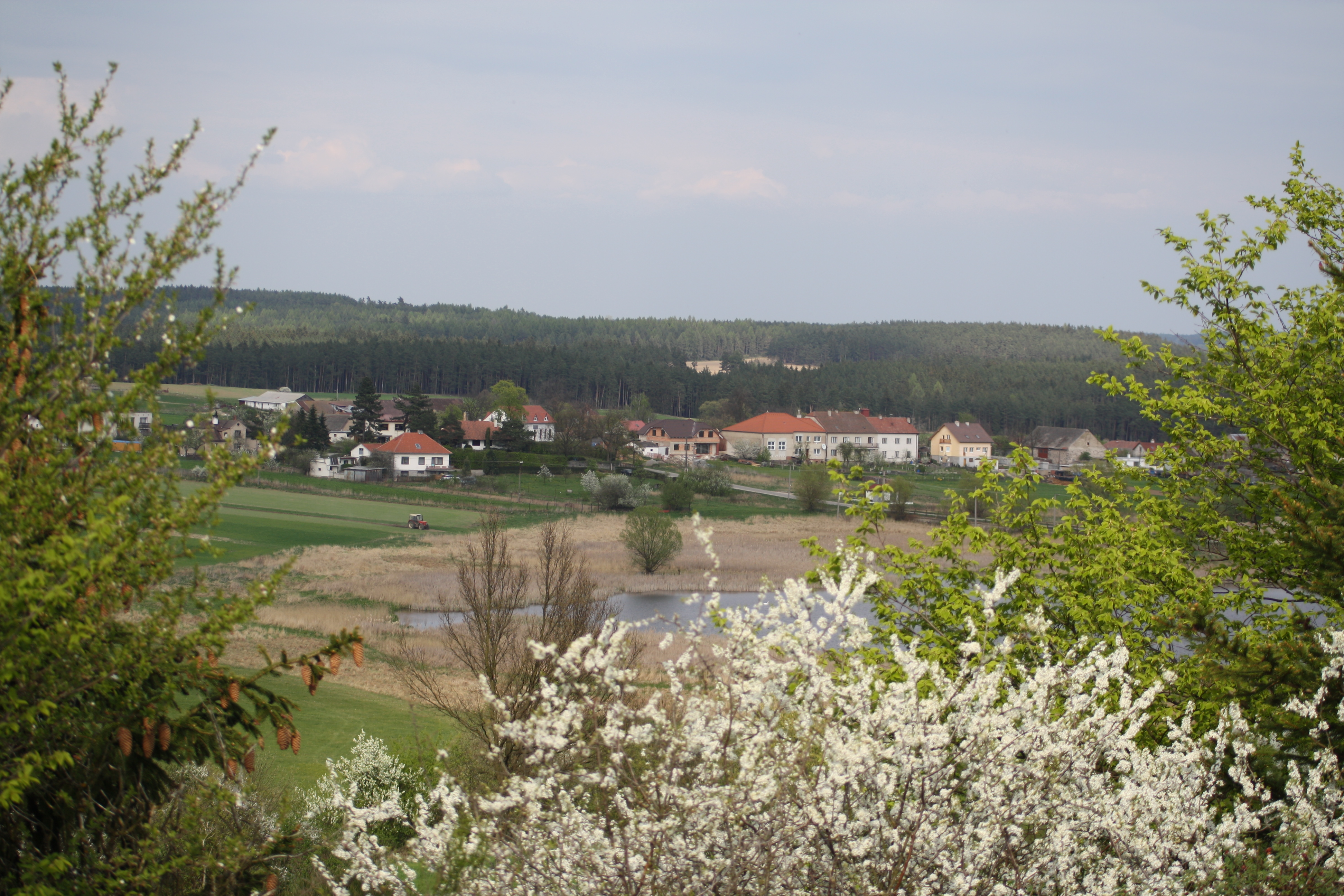 Ptáčov from hill Stříbrný kopec.